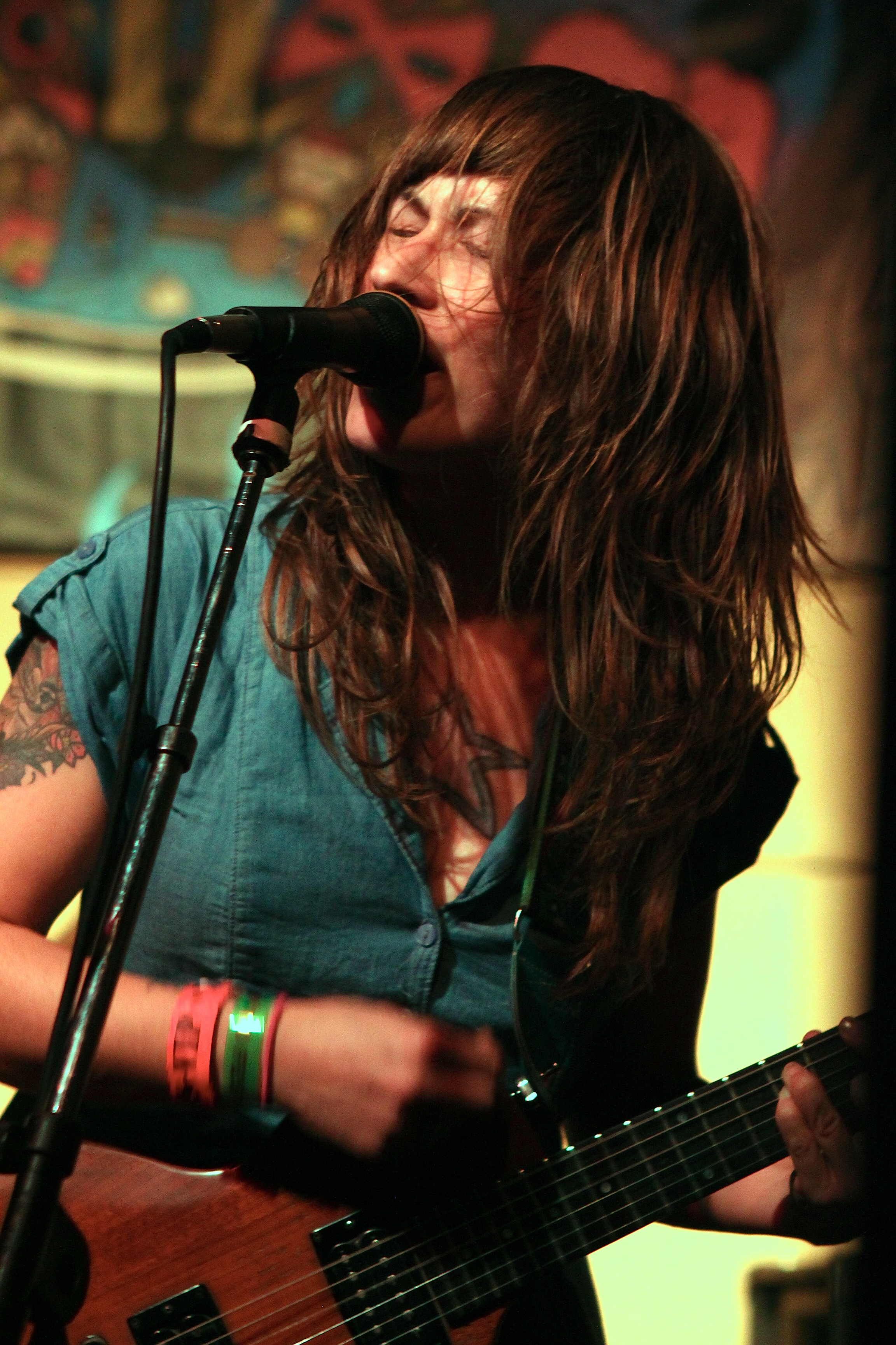 FEST 11 / 8 Seconds / Gainesville, FL / October 27, 2012